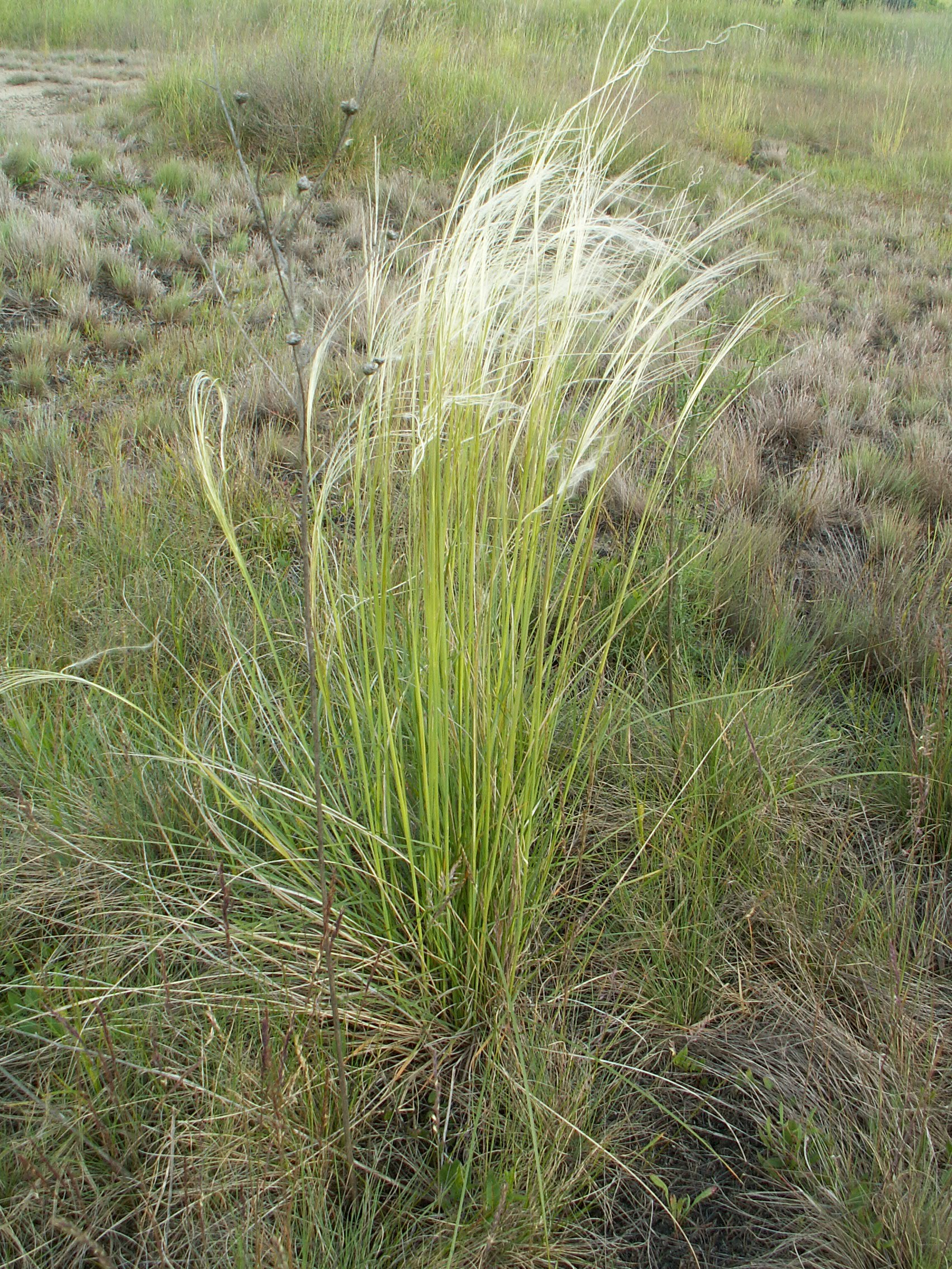 Stipa borysthenica on psammophilous grassland. Czarnowo, NW Poland.